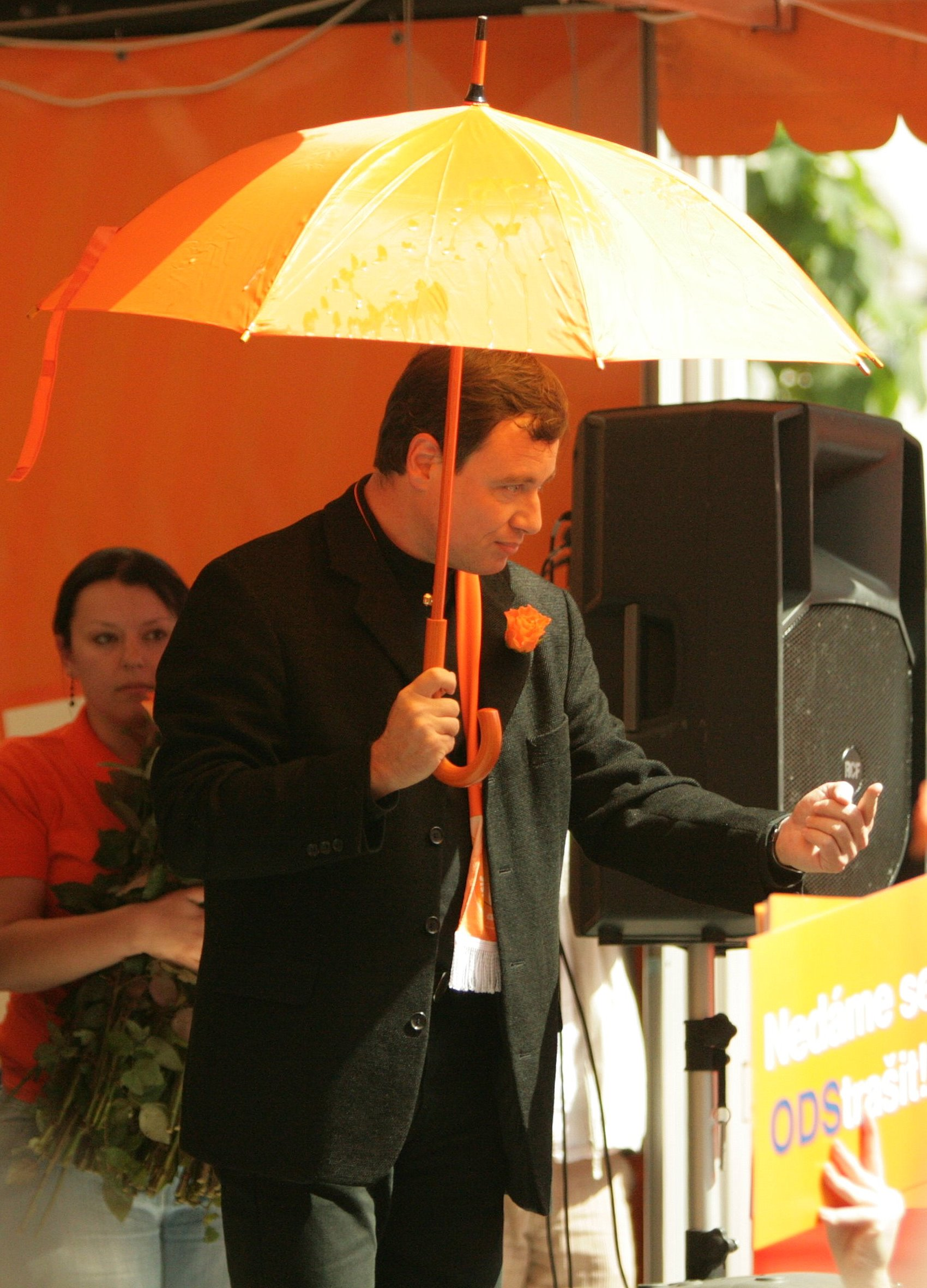 David Rath attacked with eggs on rally for European parliament elections 2009, Prague, Andel